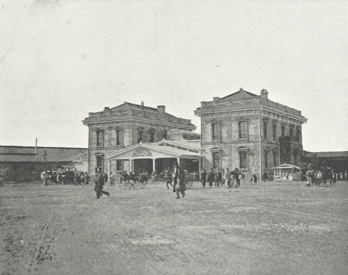 The original Shimbashi Station in Tokyo in the late 19th century. Image from: "Japan in Transition. A comparative study of the progress, policy, and methods of the Japanese since their war with China ... With ... maps ... and illustrations" by RANSOME, James Stafford, page 243, published London 1899 by Harper & Bros.